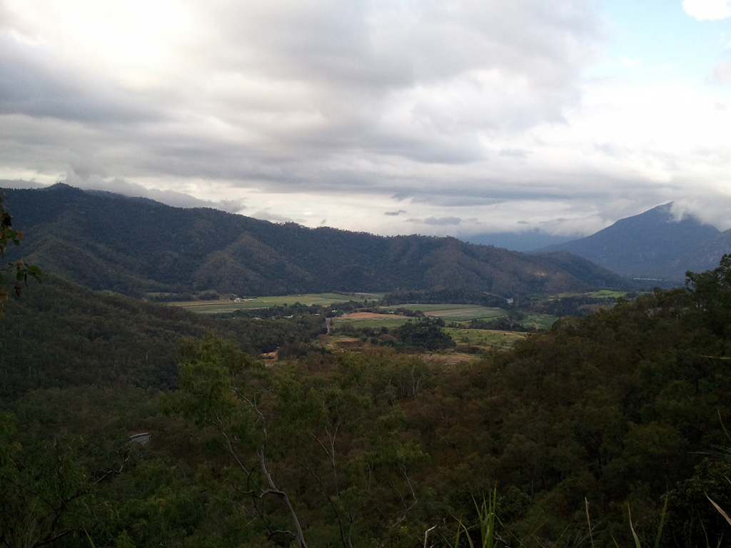 A photograph taken from the eastern side of the Gillies Ranges